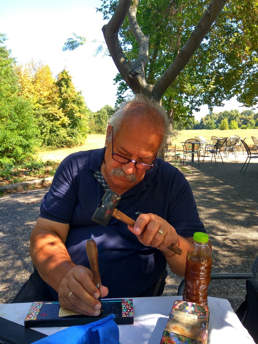 Asteris Gkekas while working in Archaeological Park of Dion, Greece, 21 August, 2019